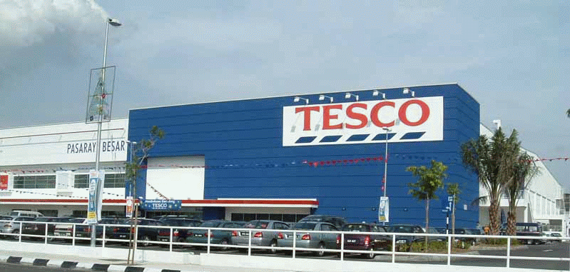 Tesco at Bandar Bukit Tinggi, Klang, Selangor, Malaysia